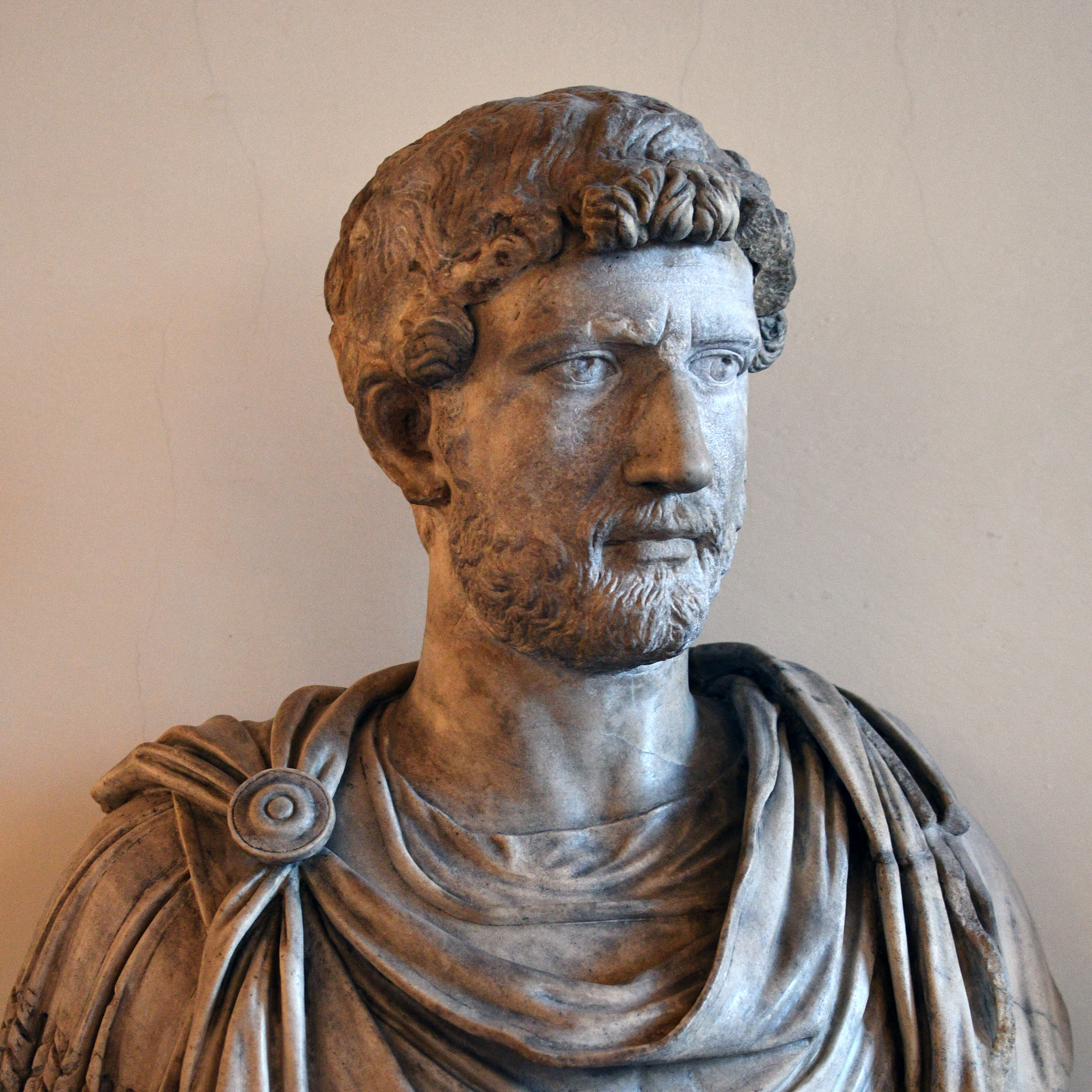 Busts of Hadrianus in Venice